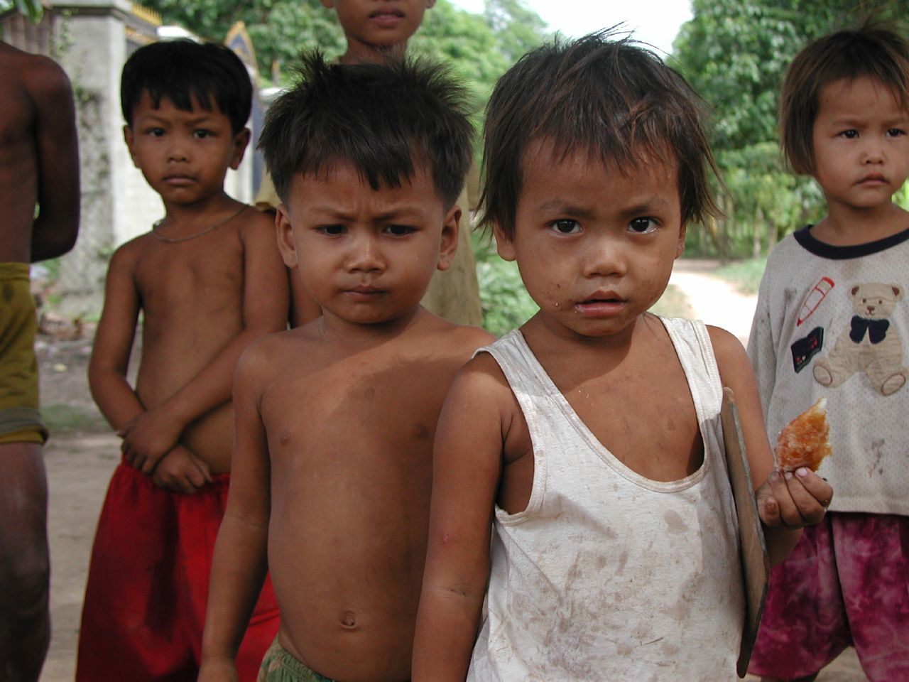 Khmer children outside the Khmer Literacy School.